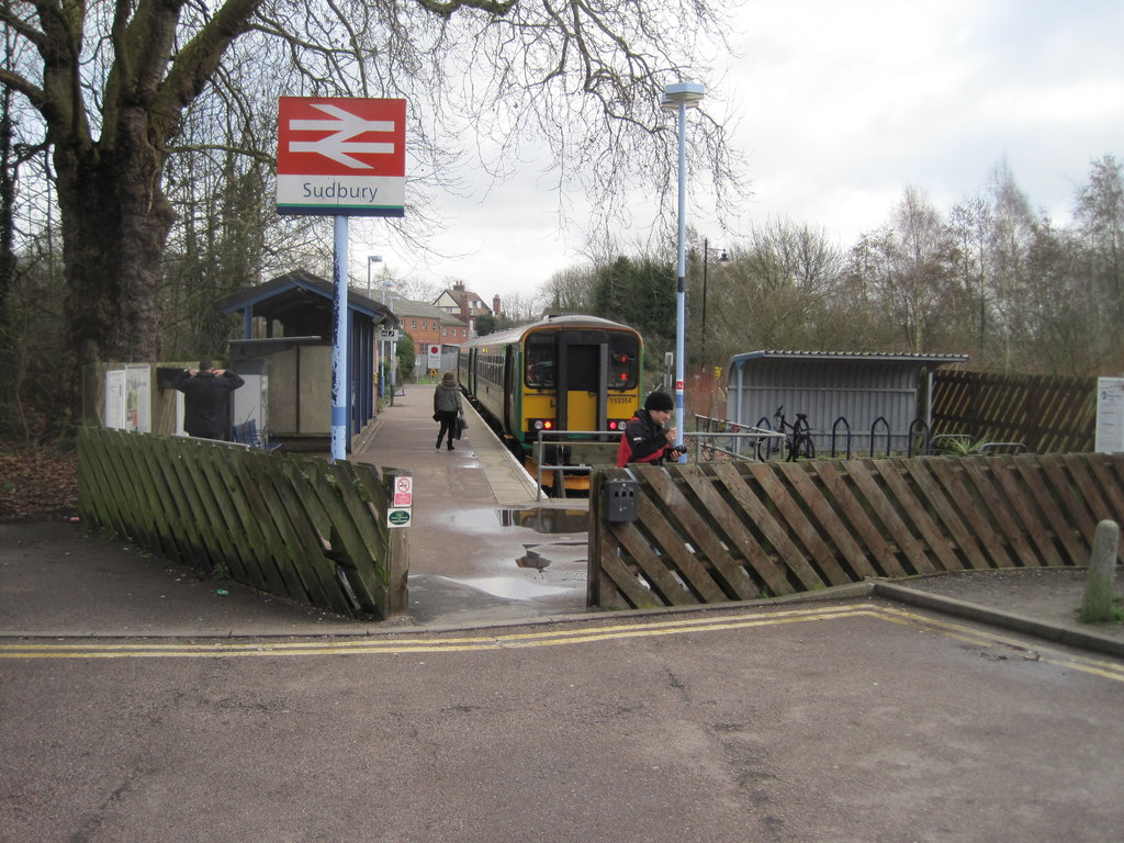 Opened in 1991 by British Rail at the end of the line from Marks Tey, this replaced Sudbury's 2nd (1865-1991) station over to the right of this image, which had been on a through route from Marks Tey to Cambridge. View east past the buffers. Sudbury's 1st (1849-1865) station had also been a terminus, situated out of view behind the camera position and to the left.